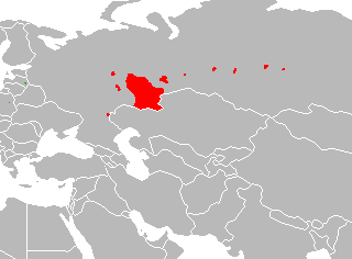 Map of Kypchak-Bolgar languages